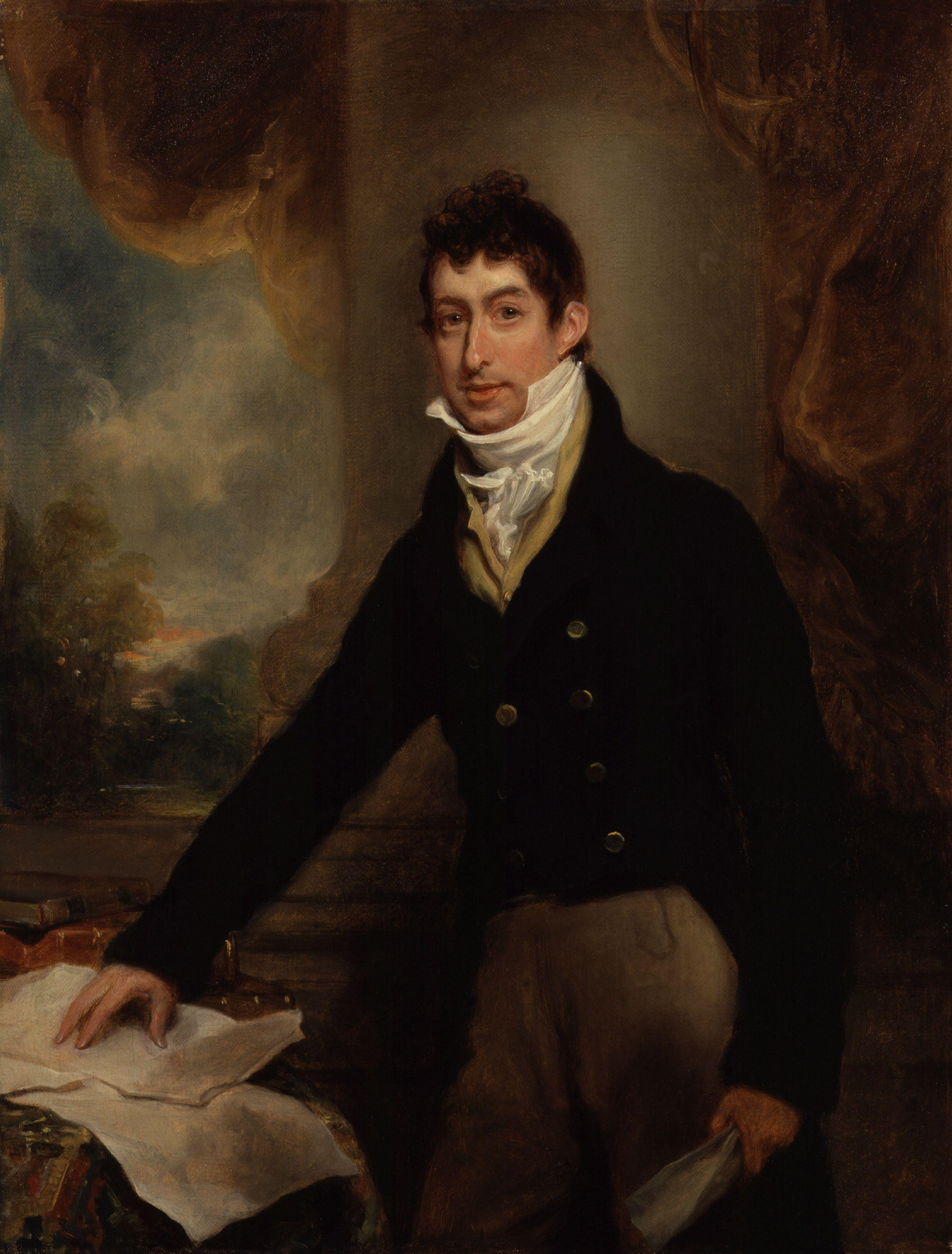 All images in this batch have been confirmed as author died before 1939 according to the official death date listed by the NPG.